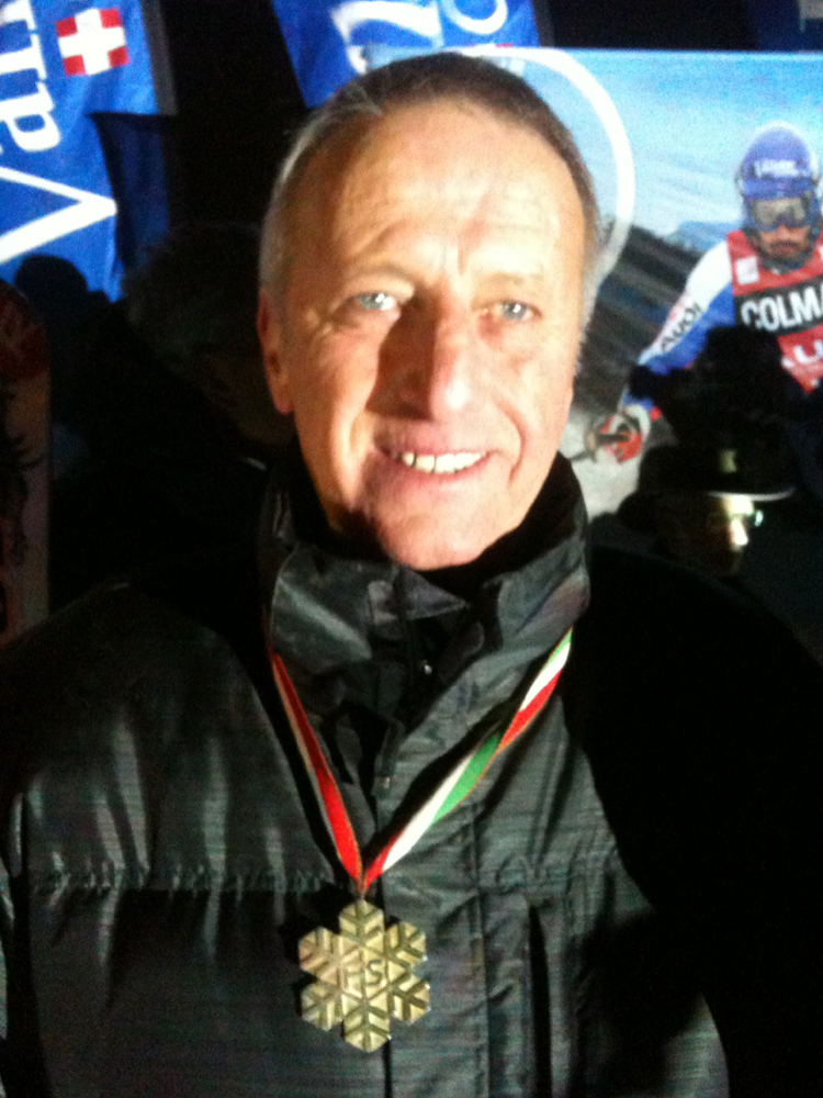 French skier Jean-Noël Augert, slalom world champion in 1970 at Val Gardena, pictured with his gold medal at Valloire (France) on the 21st of february 2011